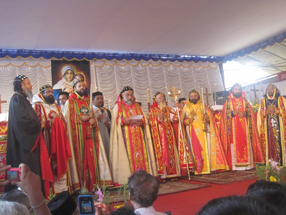 Rajadhiraja Cathedral